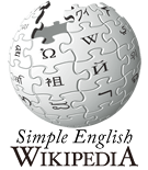 Logo of the Simple English Wikipedia